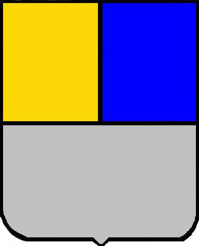 Falier Family coat of arms